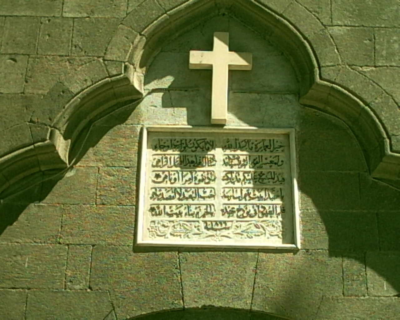 Church in the old city of Damascus with Arabic writing back to 1899.